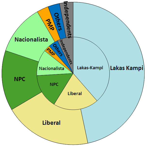 2010 Philippine House elections chart of votes compared to seats won.